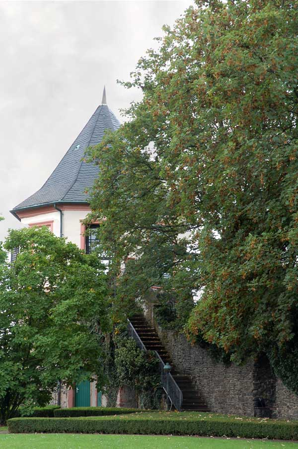 Oxtower, west part of the old defensive wall of Höchst on Main